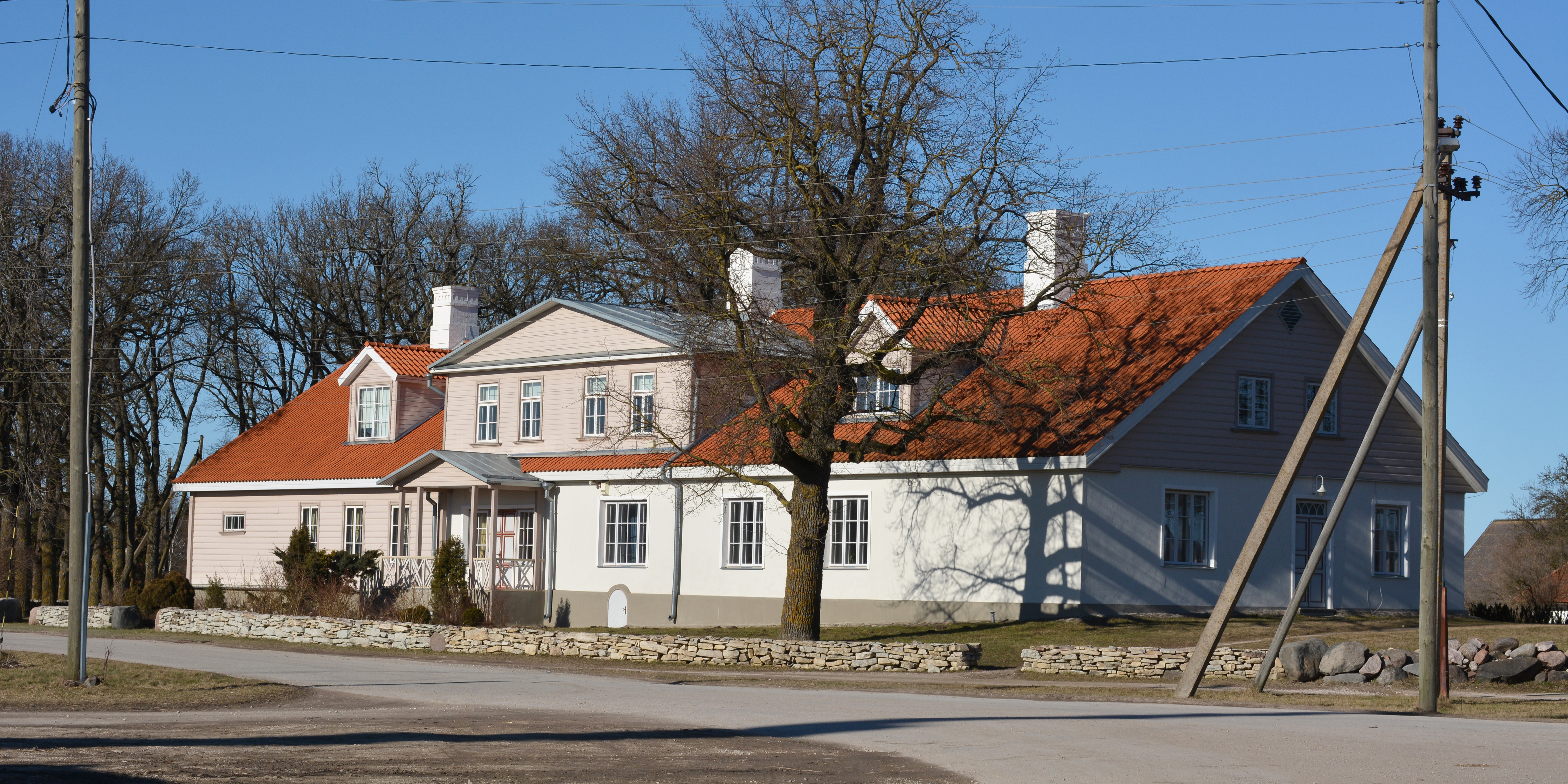 Pürksi manor house.